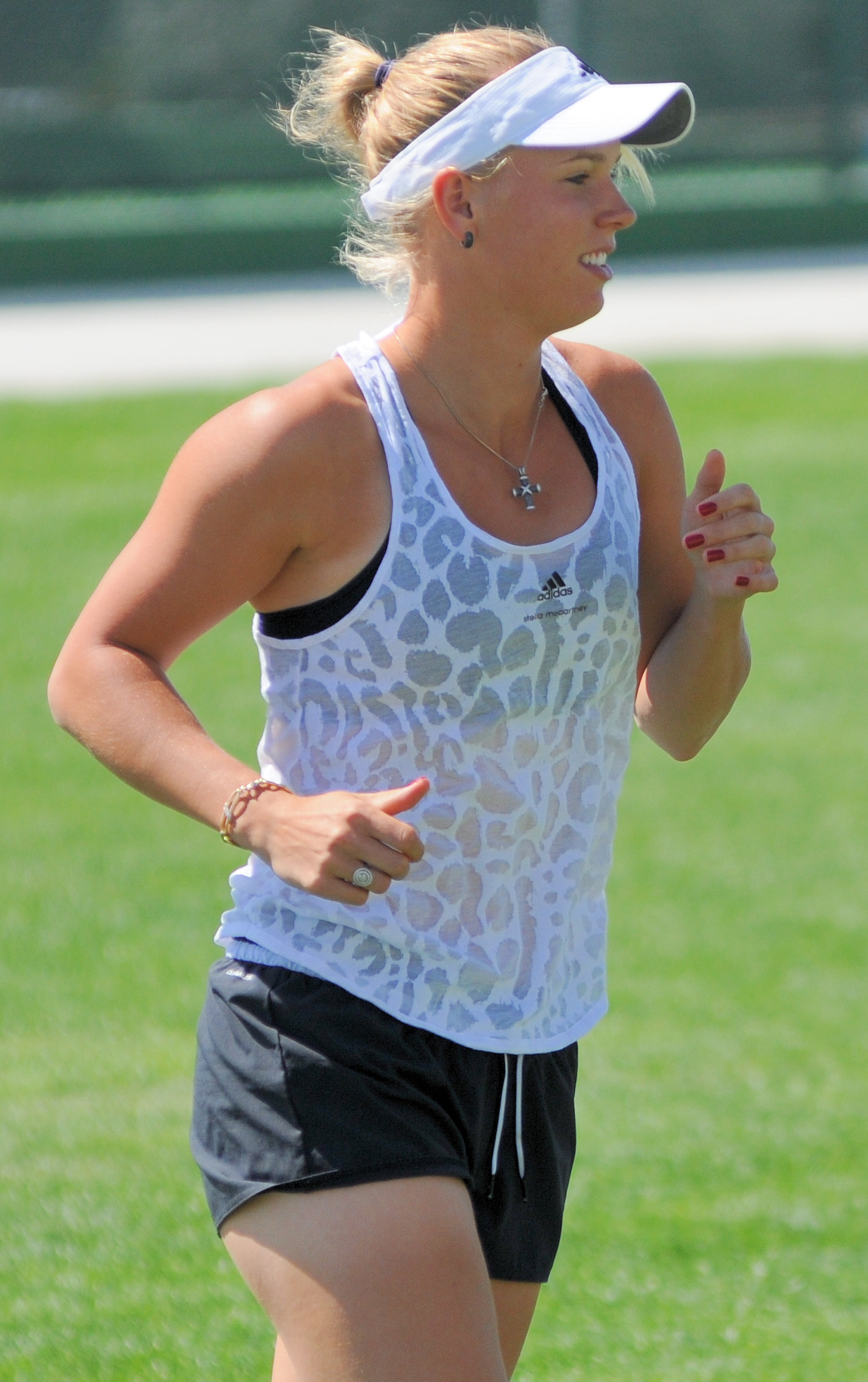 Caroline Wozniacki on a training run in Indian Wells.